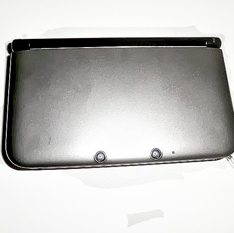 The nintendo 3ds Xl. Colorː silver.